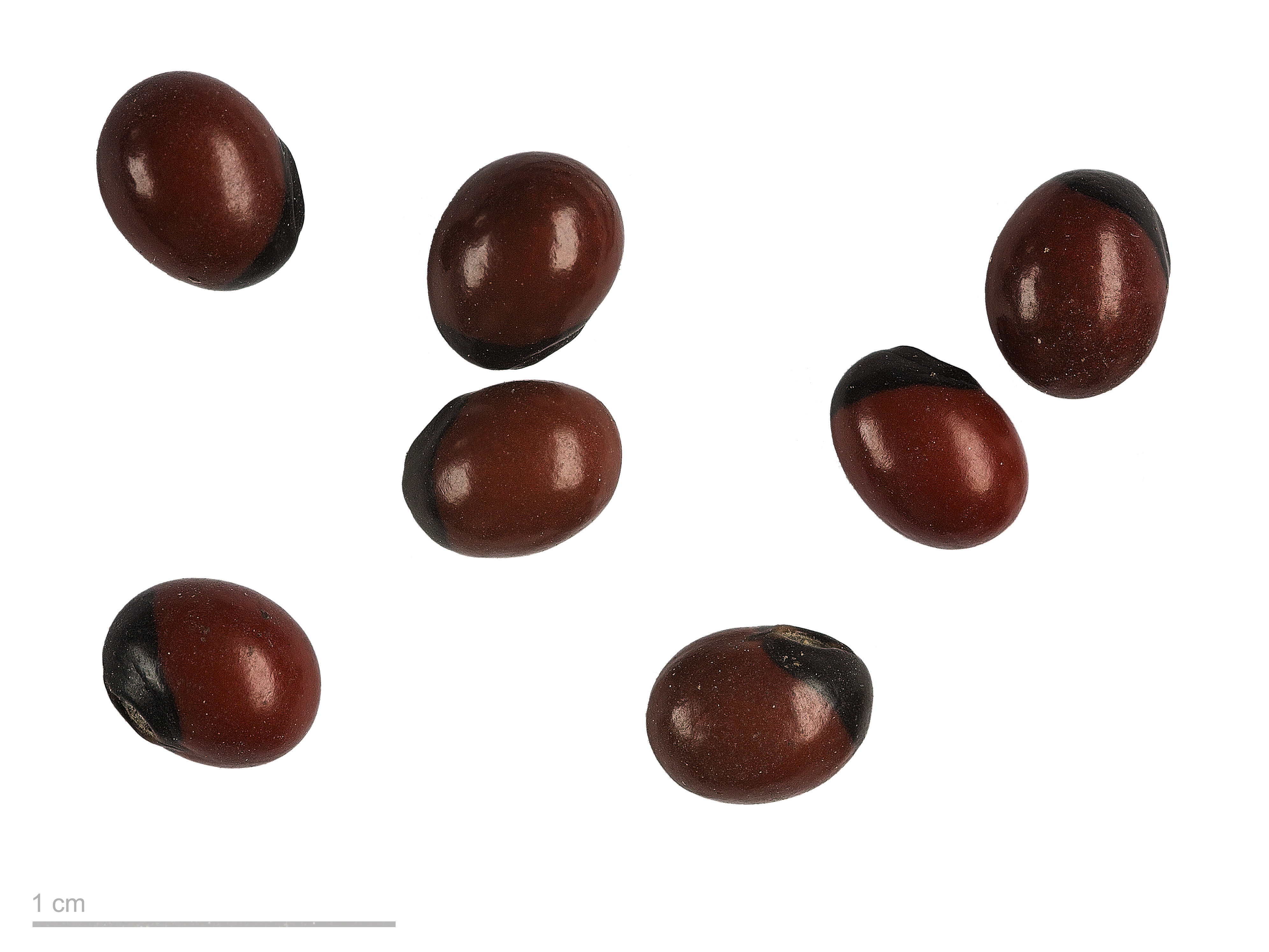 jequirity, fruits and seeds